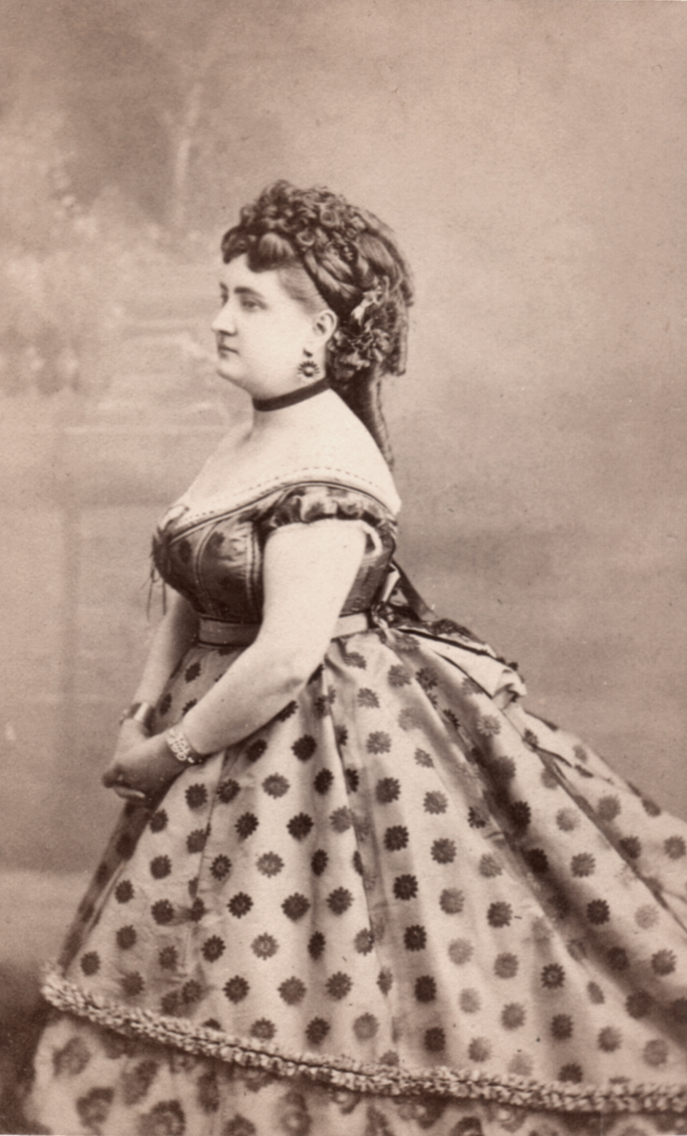 Carlotta Patti sporting starry spots. A bold fashion statement even for then.